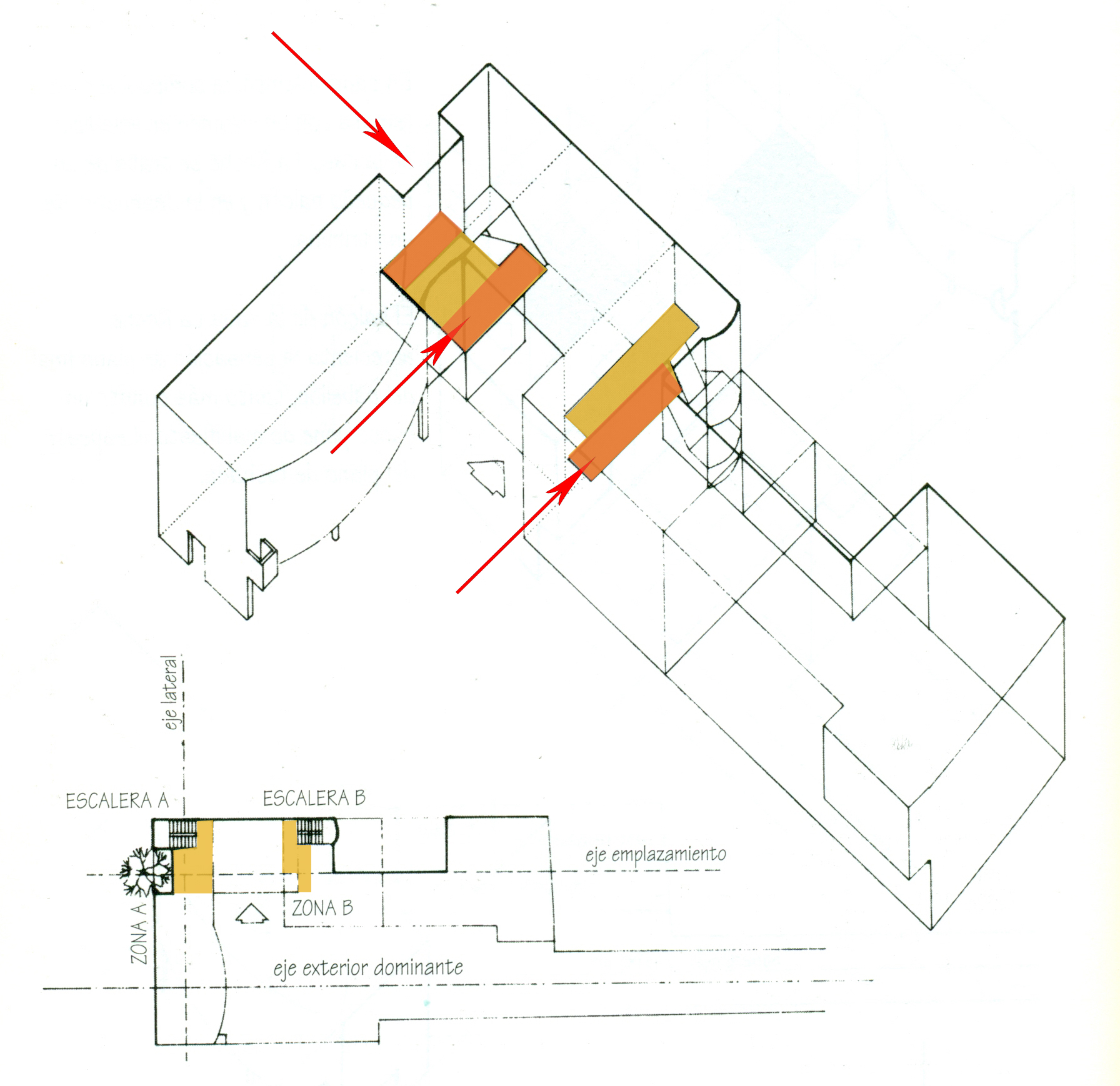 Retranqueos